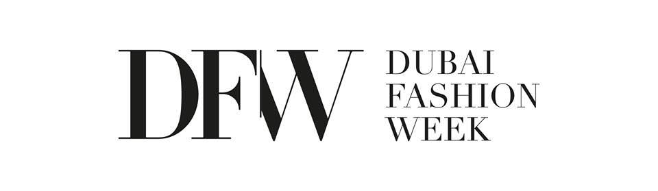 Dubai Fashion Week